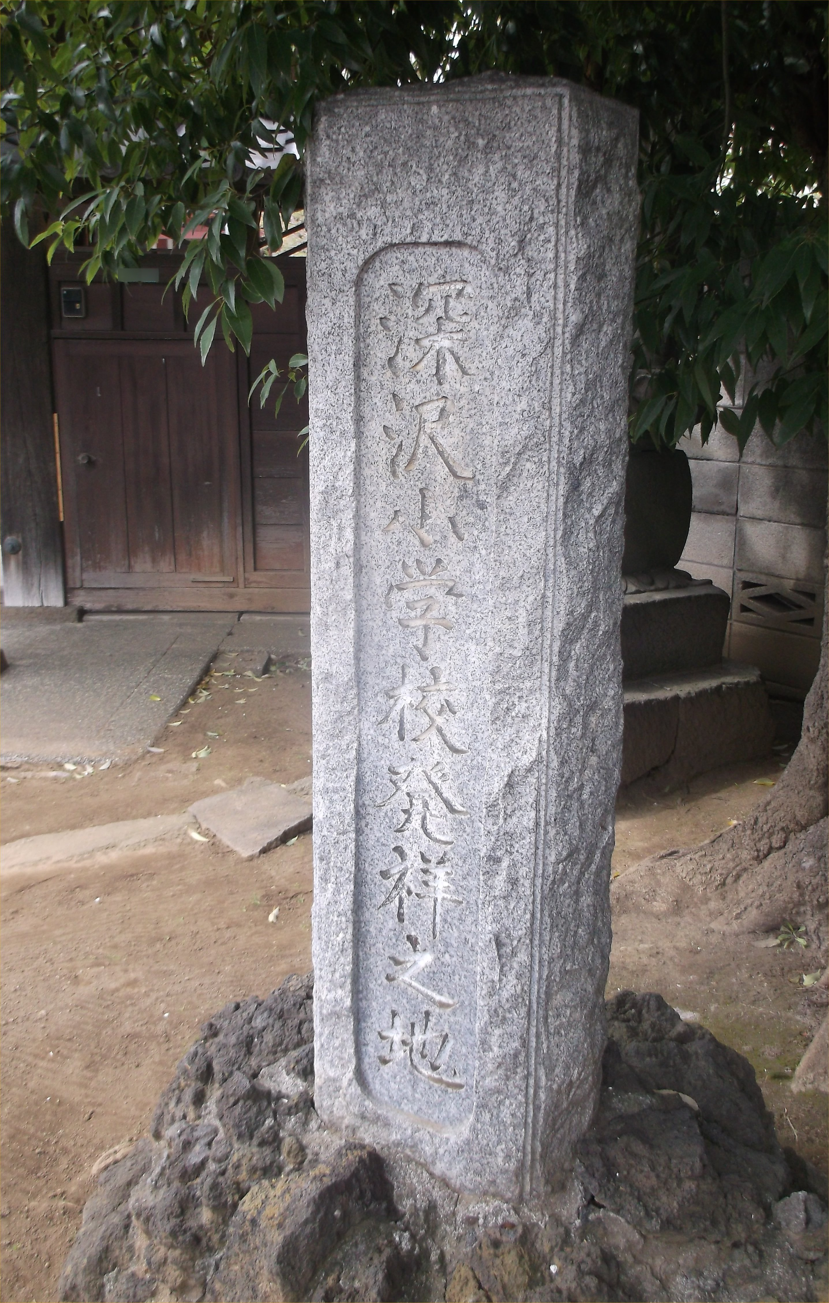 A photo of the monument of the birthplace of Fukasawa elementary school at Ioji temple,Fukasawa,Setagaya-ku,Tokyo,Japan.